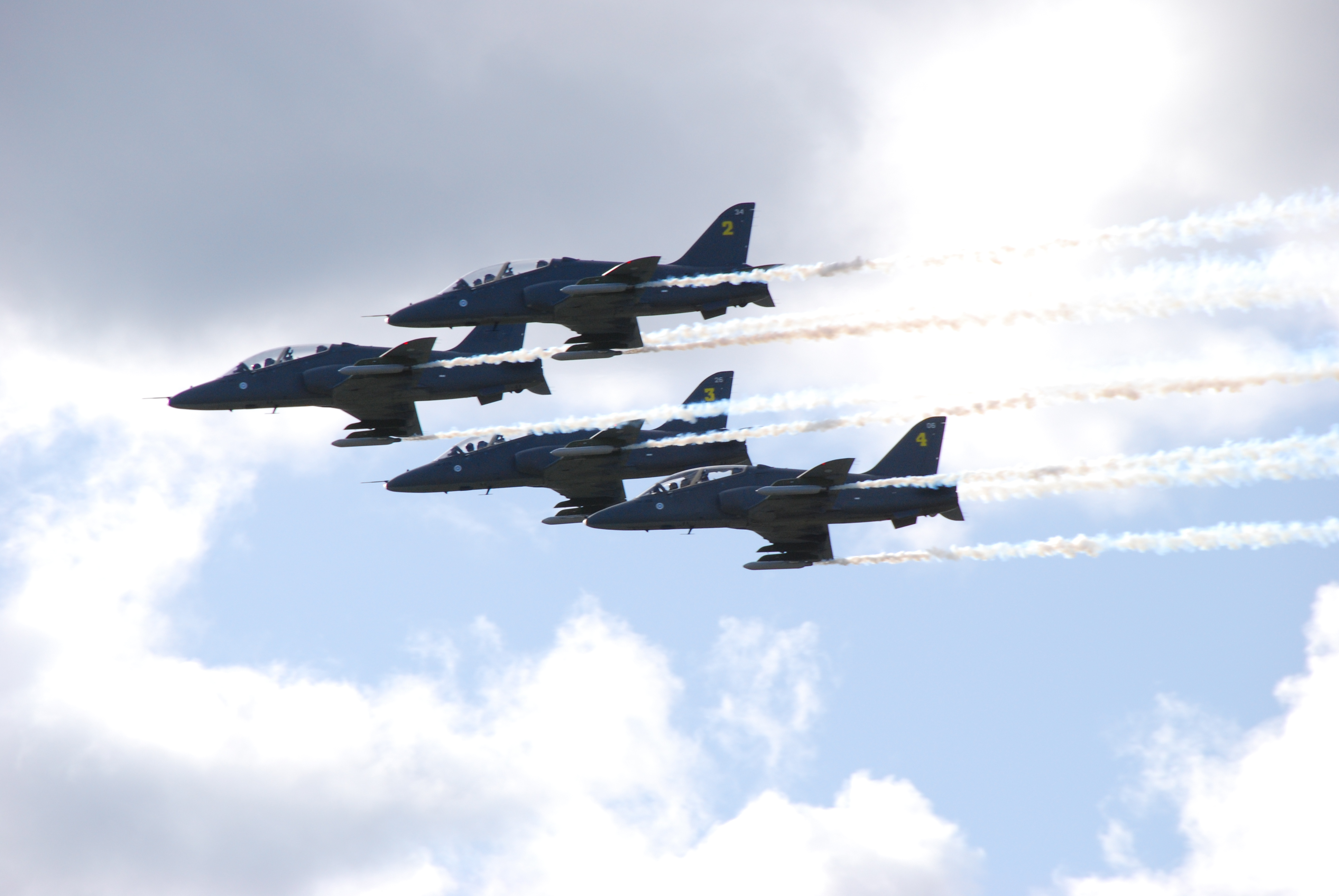 Finnish Air Force Display Team, Midnight Hawks (4 BAE Hawk jet trainer aircraft) at Helsinki International Airshow 2009, Helsinki-Malmi Airport, Helsinki, Finland